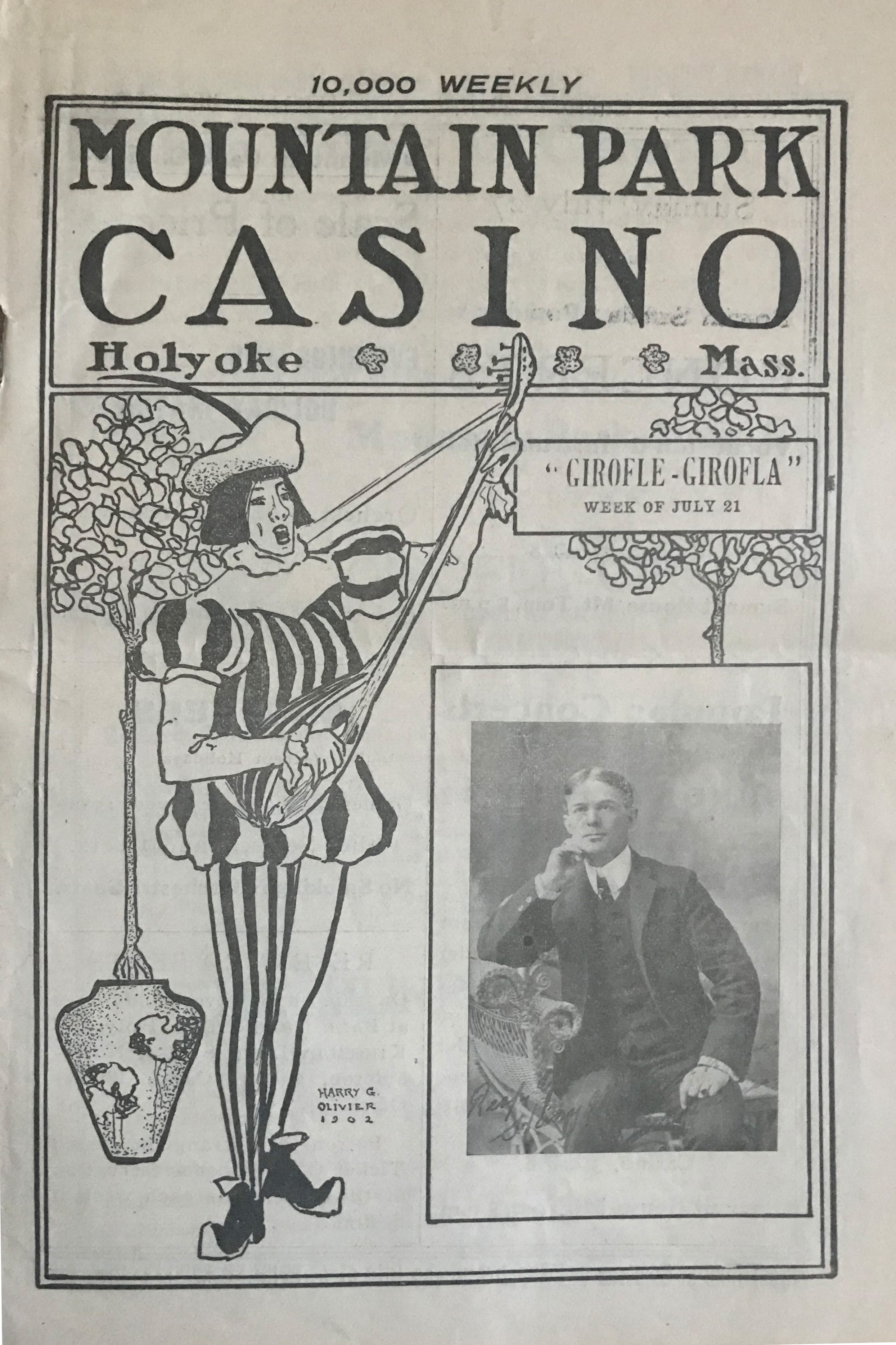 A playbill for the theatre at Mountain Park of Holyoke, Massachusetts, for a performance of the French opera Giroflé-Girofla. Contrary to its name, the Casino was strictly speaking, a theatre on the Mountain Park grounds.